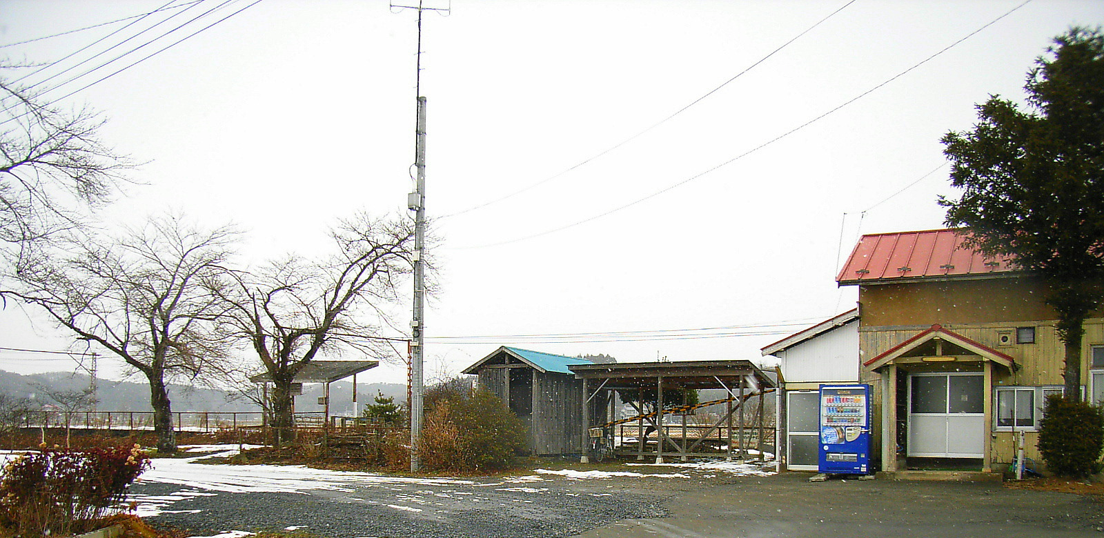 Tsukumo Station of Kurihara Denen Railway. Kurihara, Miyagi prefecture, Japan.